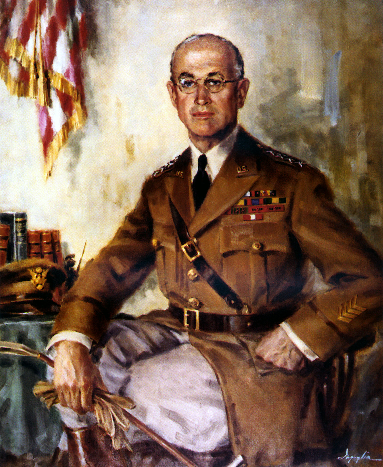 Frank Ingoglia (1907–1998), designer, illustrator, and portraitist, used his diverse talents in a number of military-related artistic endeavors. His portrait of General Malin Craig is reproduced from the Army Art Collection.